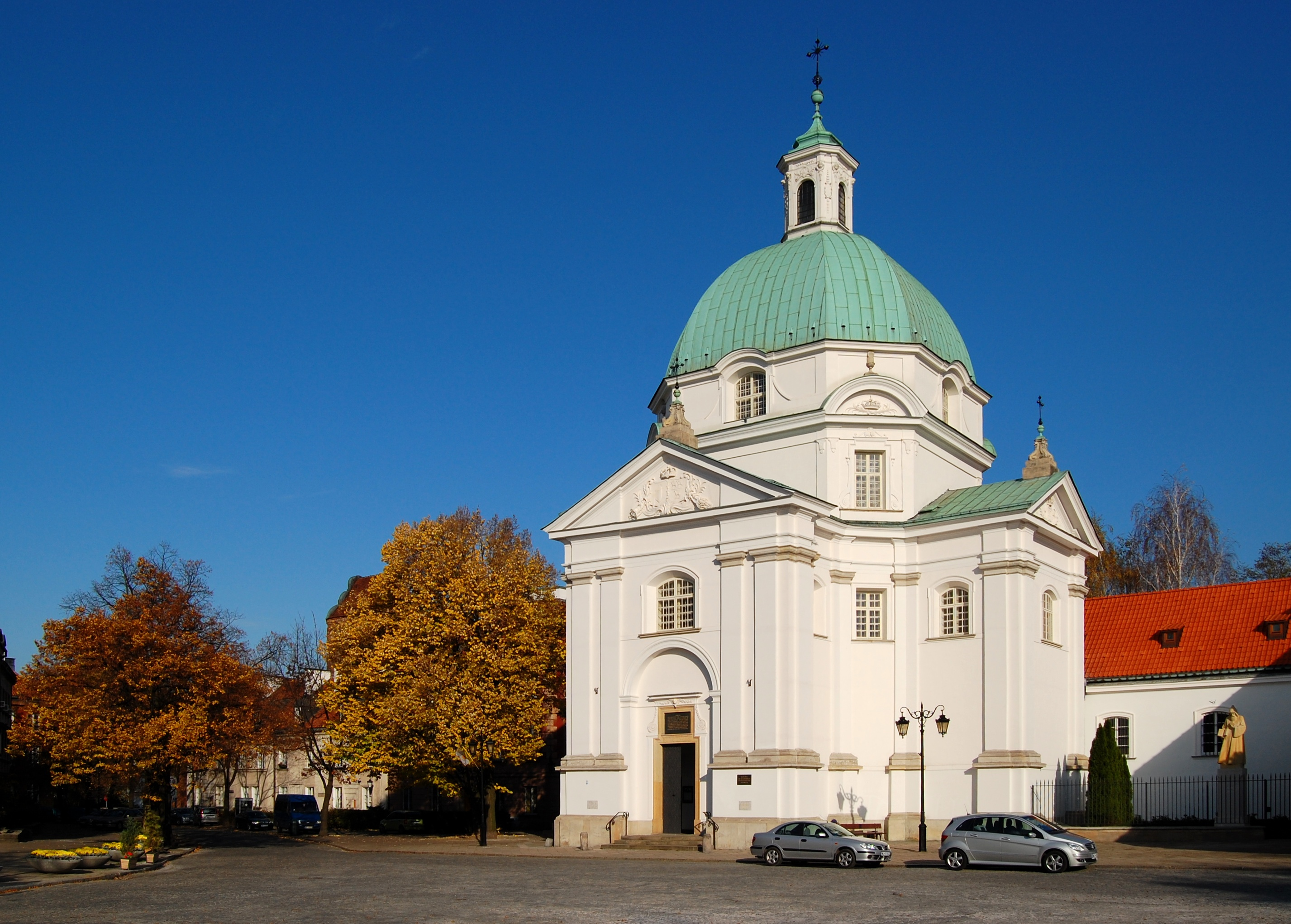 St. Kazimierz Church in Warsaw's New Town at Rynek Nowego Miasta.